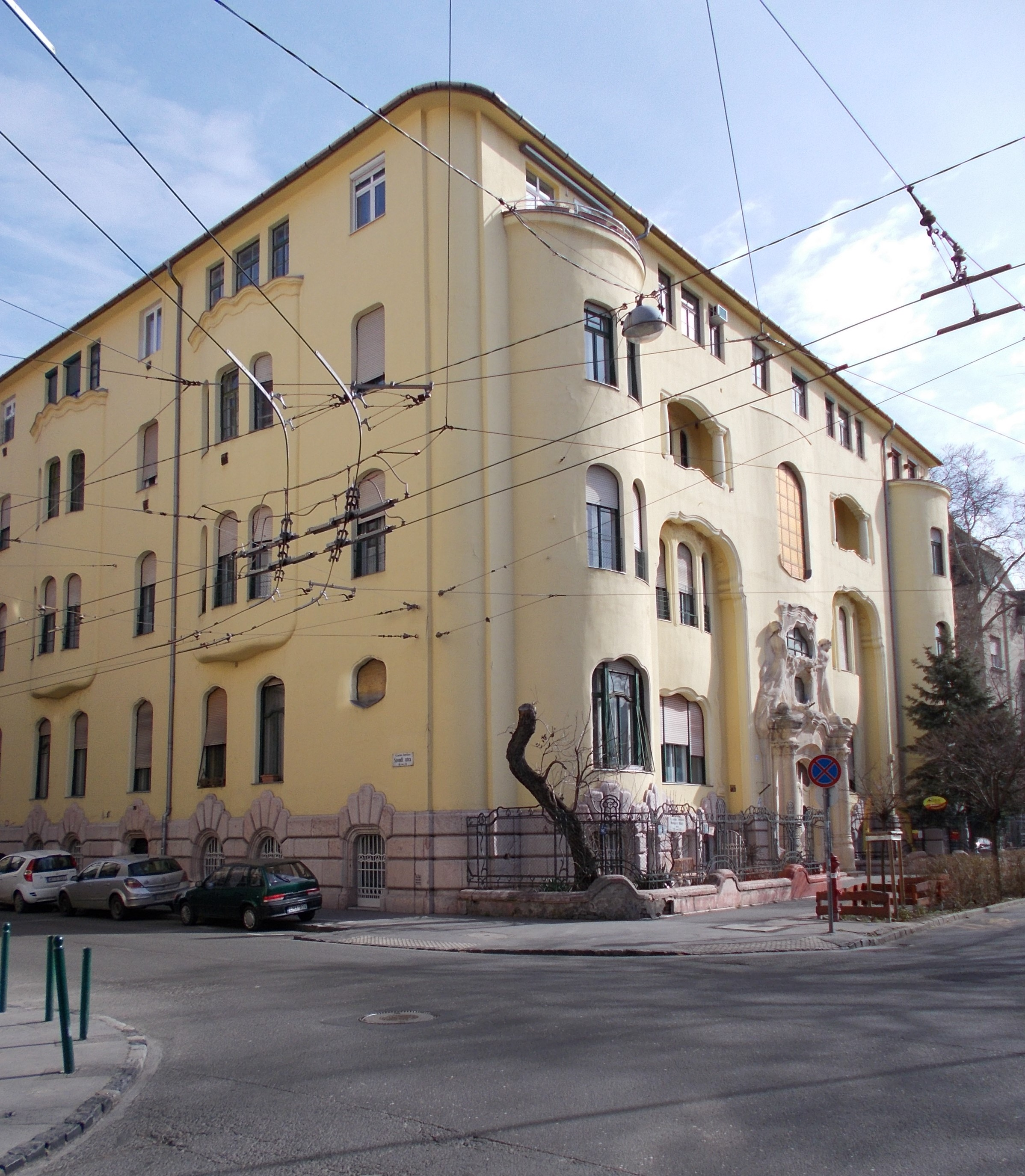 ~Day-care kindergarten in the listed Sonnenberg house (1904) - 23 Munkácsy Mihály Street/73 Szondi Street, District VI of Budapest.